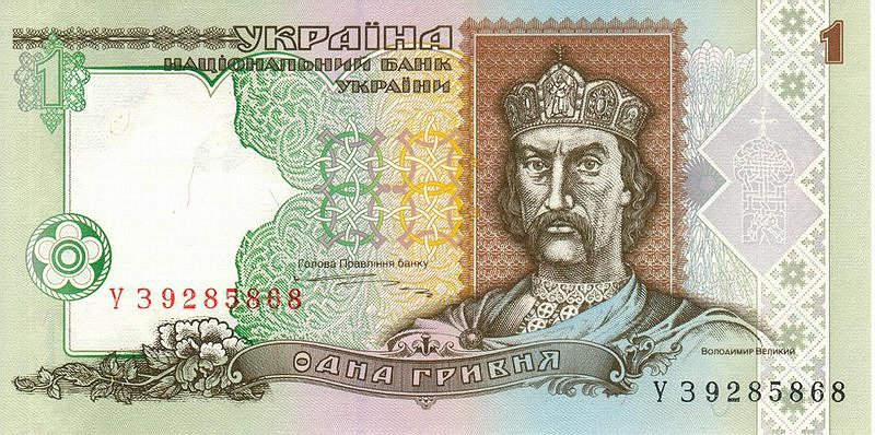 1 Hryvnia banknote (Ukraine), 1995, front